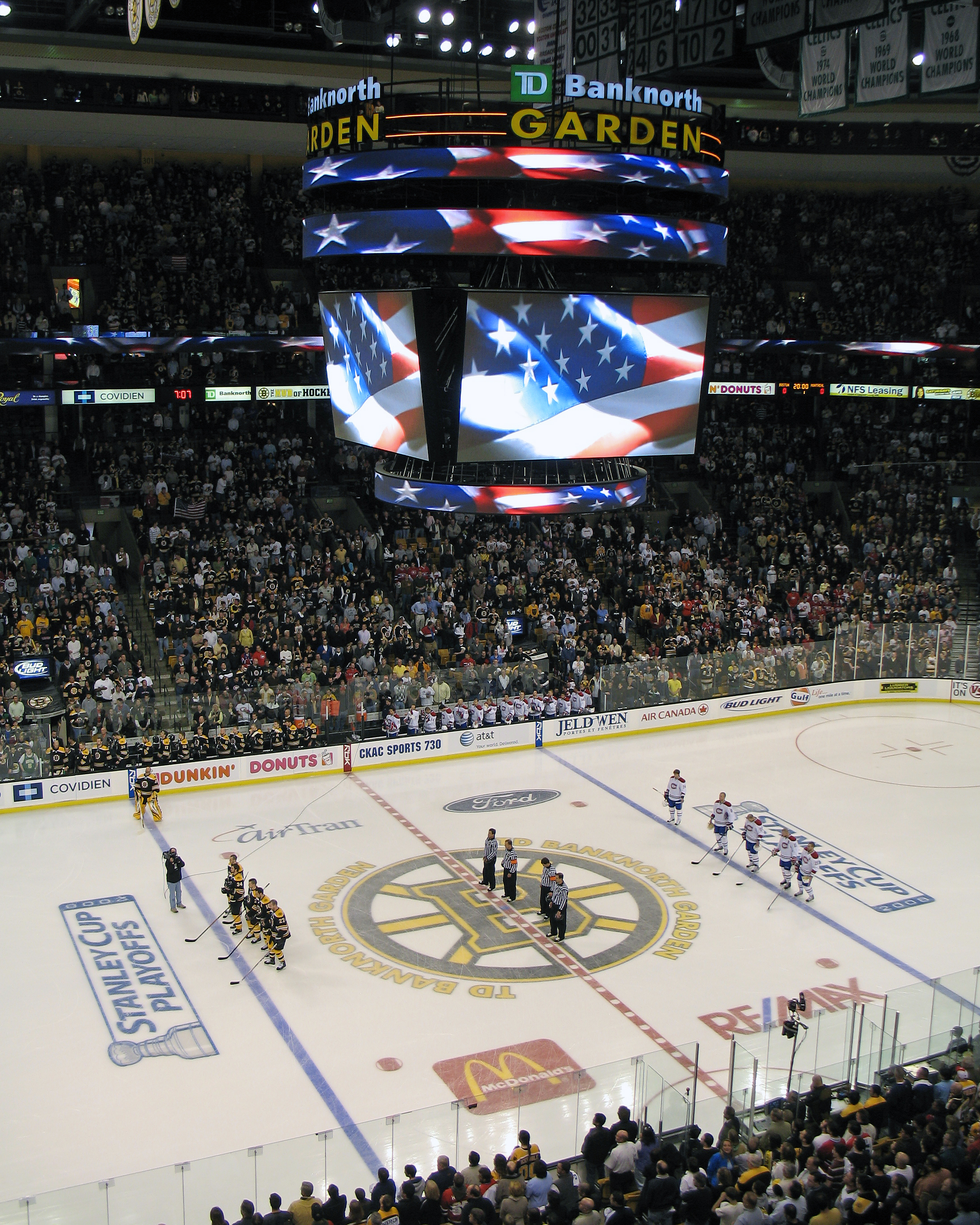 Boston Bruins vs Montreal Canadians. April 19, 2008. Years ago, I was a big Bruins/hockey fan. In fact, I hadn't been to a game in many years, none at the new TD Banknorth Garden. I was fortunate to get tickets for the 4/19 Stanley Cup Semifinal game. It was one of the best games I can remember. Here the teams line up for the two national anthems prior to the start.